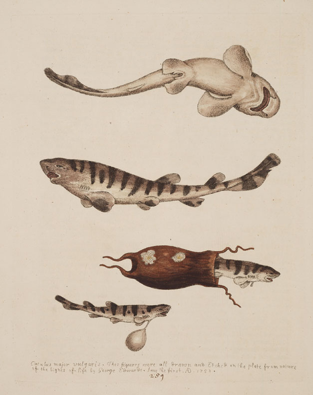 Engraving: Catulus major vulgaris or "The Greater Cat-Fish" (now Haploblepharus edwardsii)